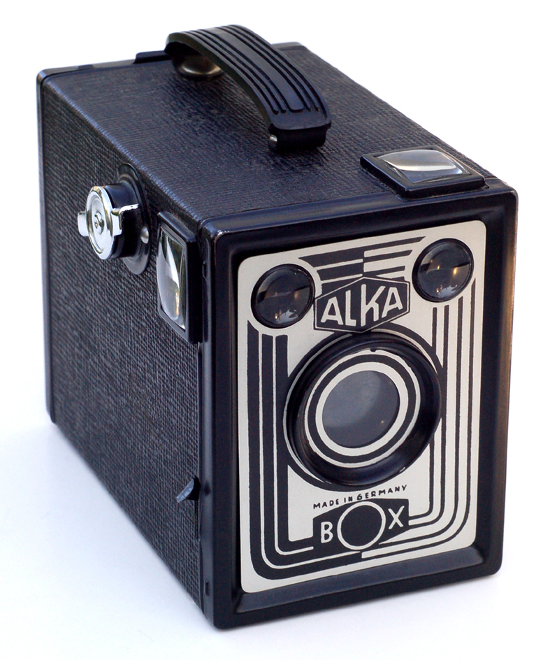 The Alka Box (c1953) is just one of several attractive box cameras made by Vredeborch of Germany. This example has a soft plastic handle, parallel to the sides of the camera, while some have a diagonal handle (similar to the one on the GAP 6x9 box). Another Alka Box variation is that some included a built-in yellow filter, rotated into place by a knob below the lens (located where the 'O' in 'box' is). I have also seen a knob-less example where the 'O' was not filled in -- it was just a silver circle without the black inside. Most Vredeborch box cameras have the awesome nifty-fifties covering seen here, but some had the standard run-of-the-mill pebbled covering (also similar to the GAP). So many old box cameras have viewfinders that are almost completely useless - tiny, yellowed, dim & dirty. This camera's finders are the exact opposite. They're large, bright, clean, and crystal-clear, which is pretty good for being 55 years old!